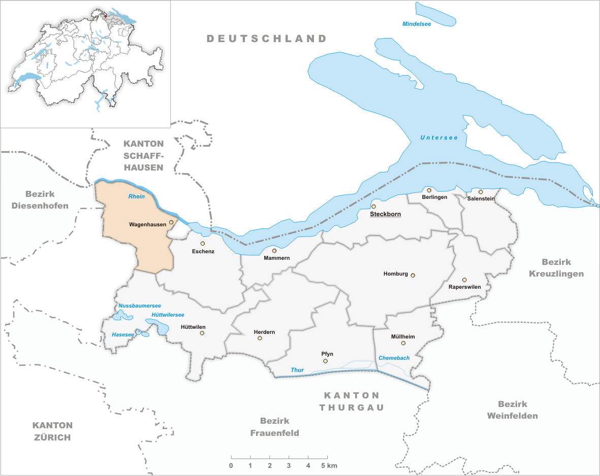 Municipality Wagenhausen